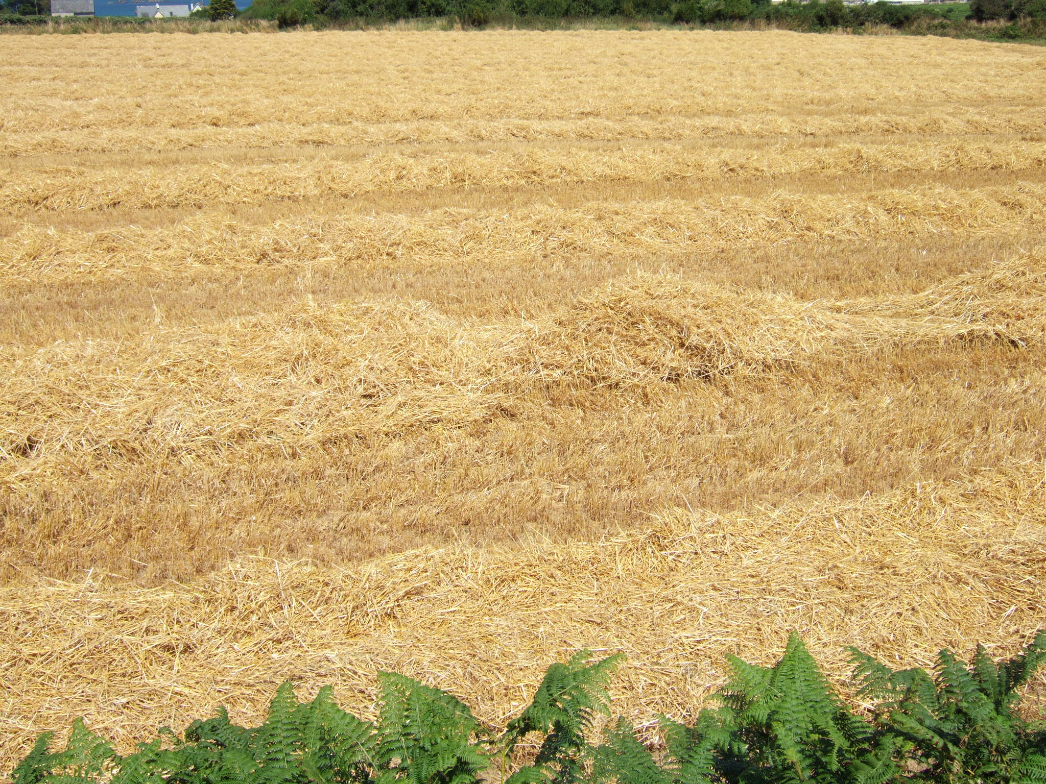 Straw in France.